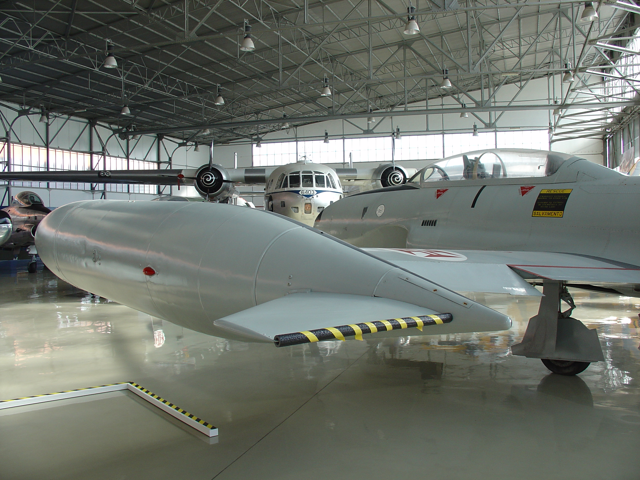 T-33 Shooting Star in the Museu do Ar